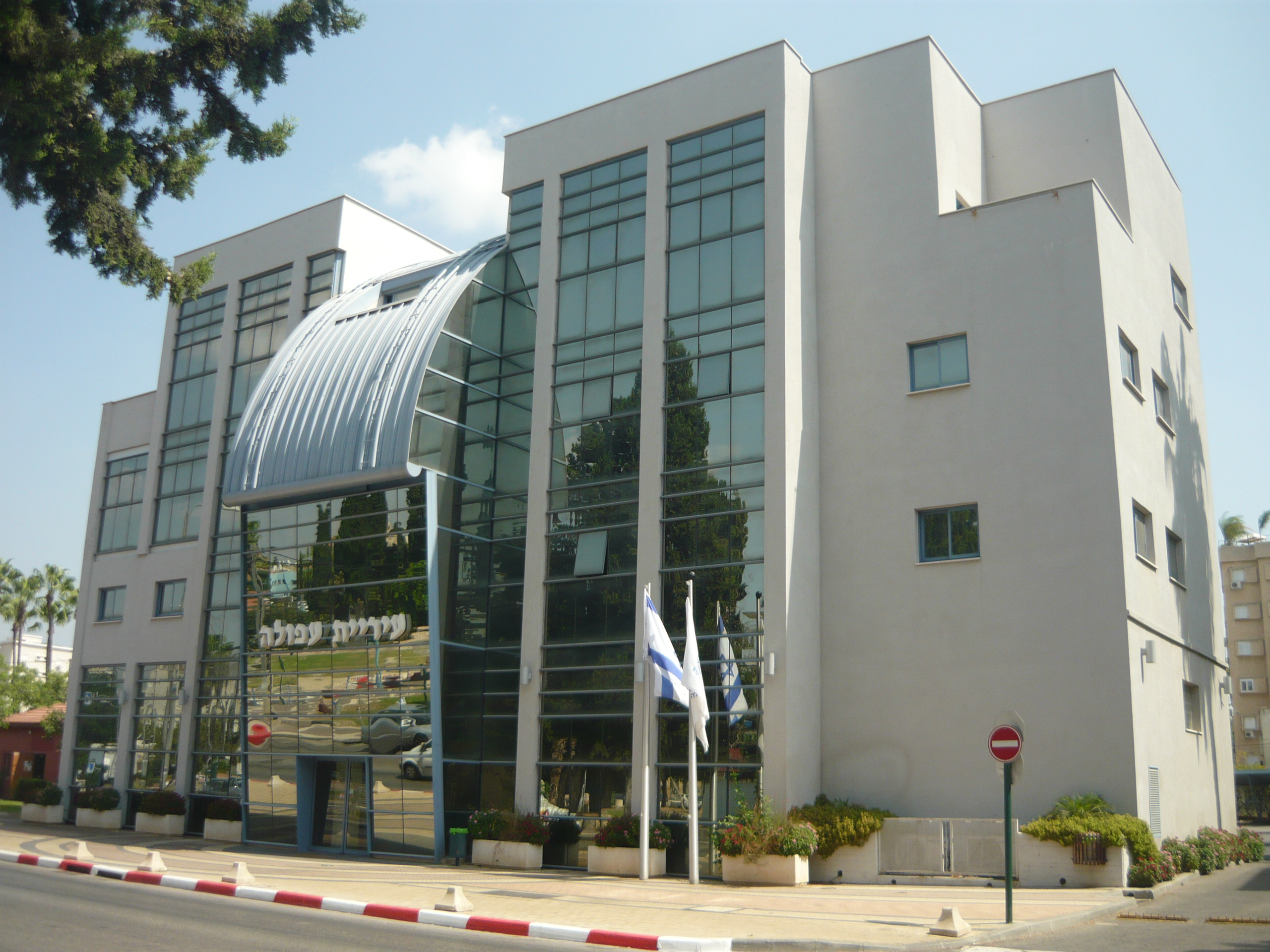 Afula city hall עיריית עפולה